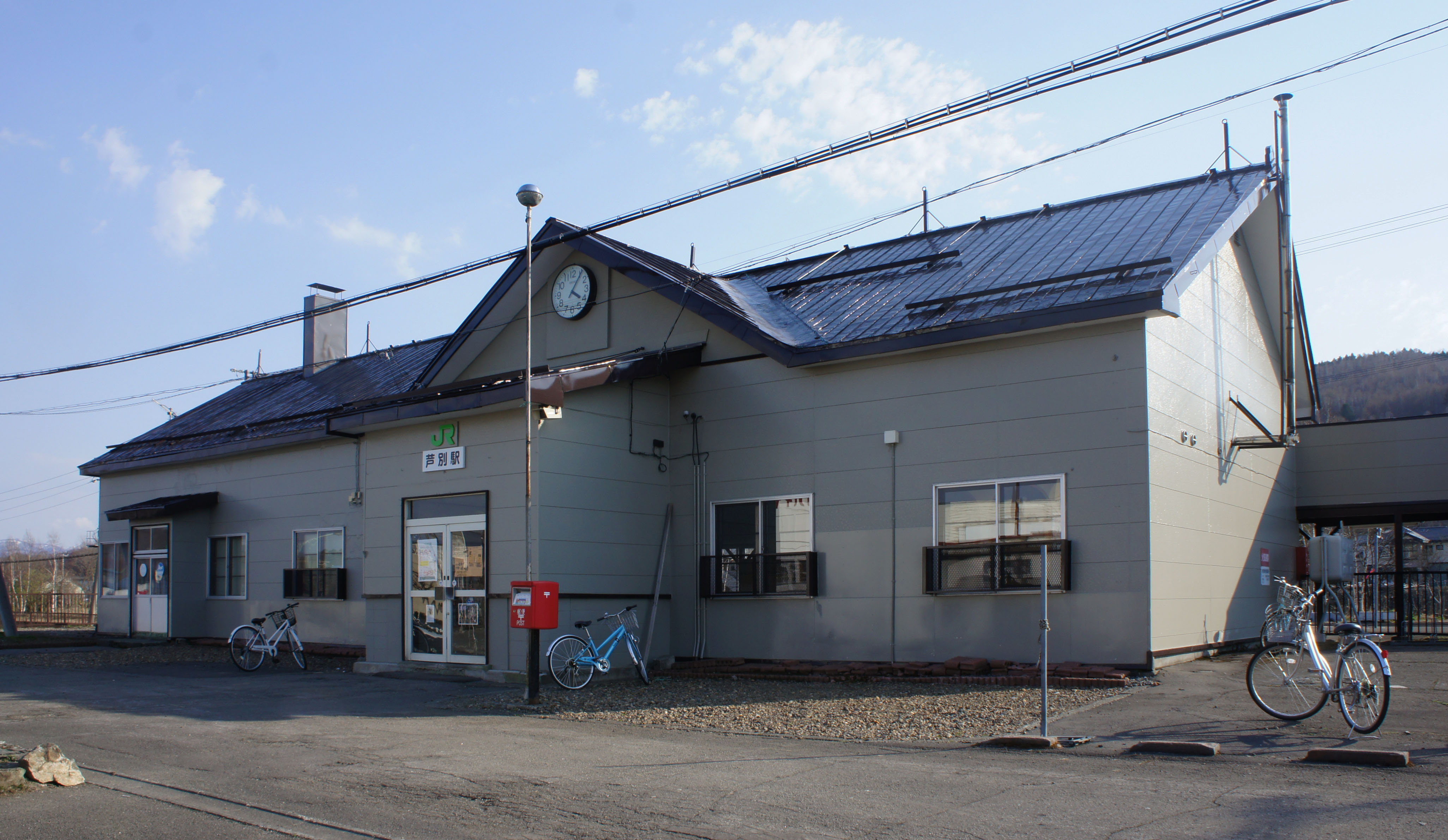 Station building of JR Nemuro-Main-Line Ashibetsu Station Sony NEX-3 + E 18-55mm F3.5-5.6 OSS